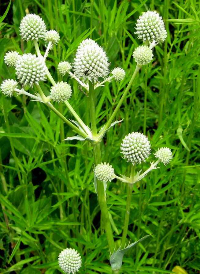 Rattlesnake Master, Schaumburg IL.